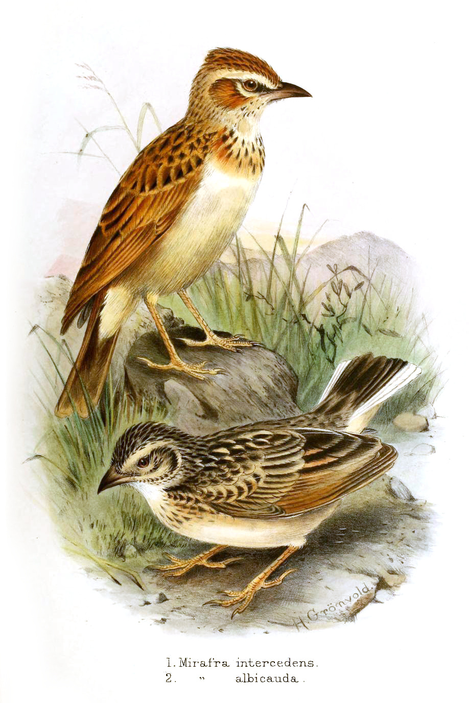 Fawn-coloured lark, Calendulauda africanoides intercedens Reichenow, 1895 (top), and White-tailed lark, Mirafra albicauda Reichenow, 1891 (bottom), in the third of five volumes of G. E. Shelley's Birds of Africa (1896 to 1912)